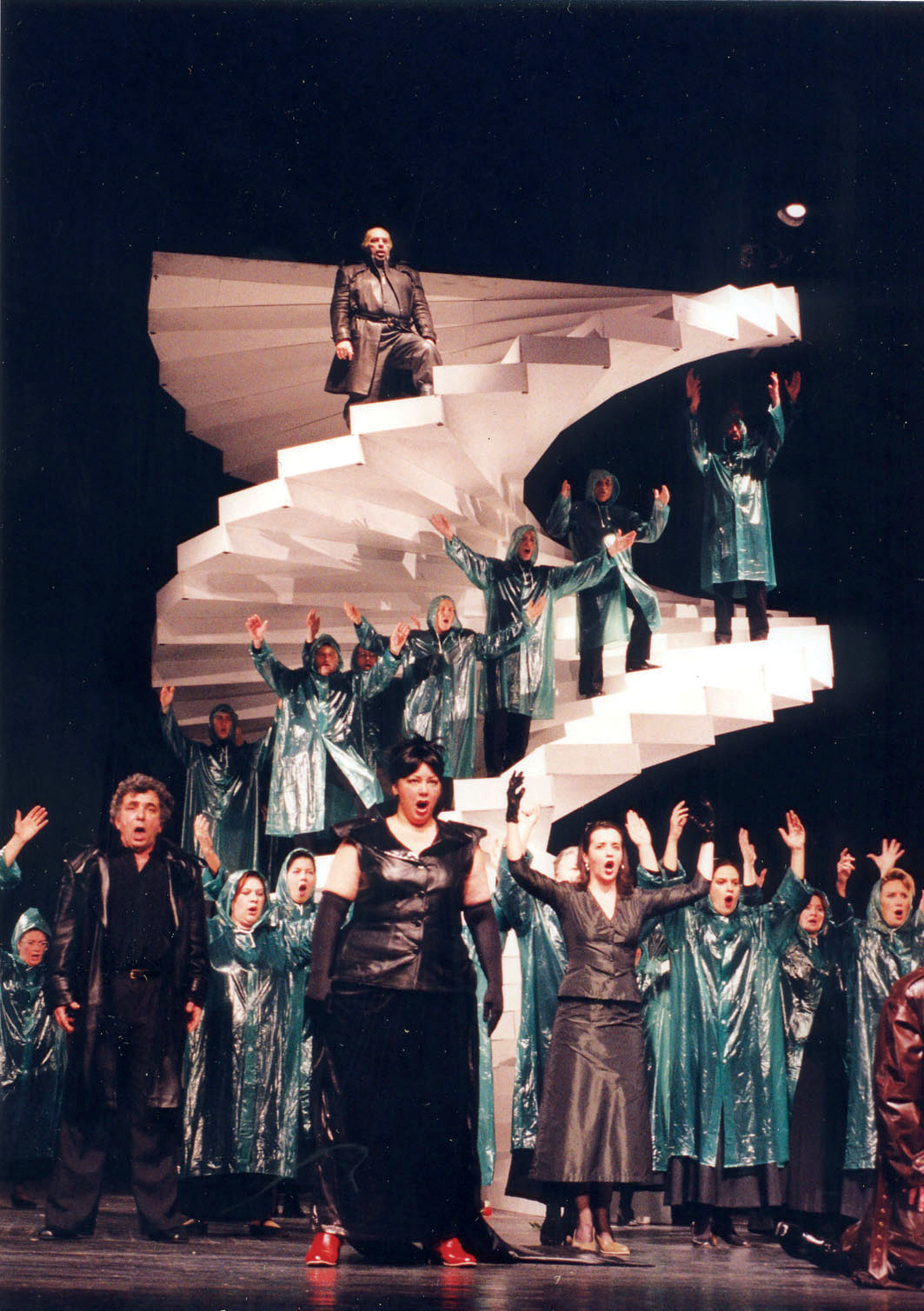 Scene from the opera Macbeth by Giuseppe Verdi, directed by Darijan Mihajlović, Serbian National Theater, Novi Sad, 2001. Photographer: Branislav Lučić Srpski (latinica): Prizor iz opere Magbet Đ. Verdija, u režiji Darijana Mihajlovića, Srpsko narodno pozorište, Novi Sad, 2001. Fotograf- Branislav Lučić Српски (ћирилица): Призор из опере Магбет Ђ. Вердија, у режији Даријана Михајловића, Српско народно позориште, Нови Сад, 2001.